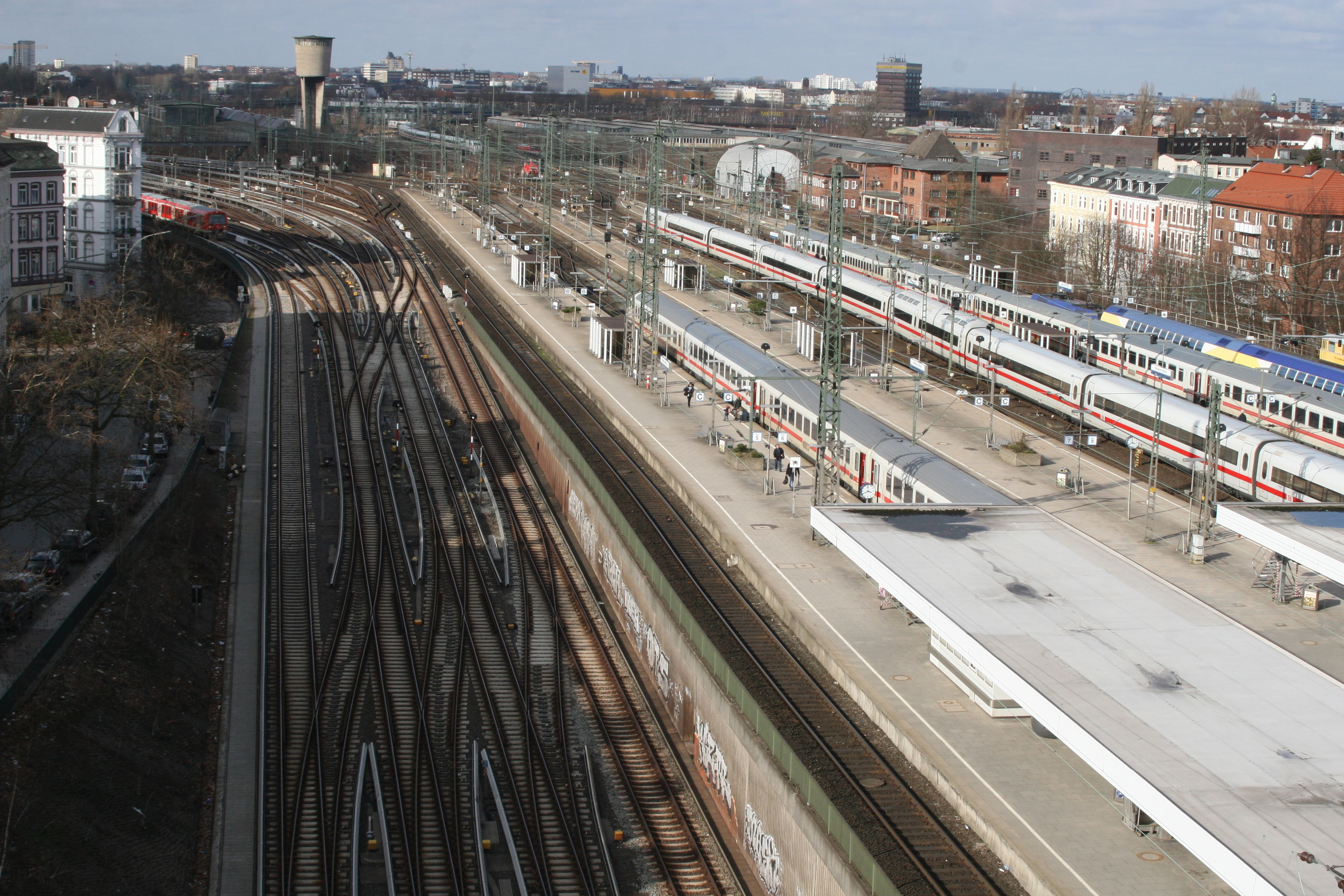 Terminus/Train Station Hamburg-Altona, Germany